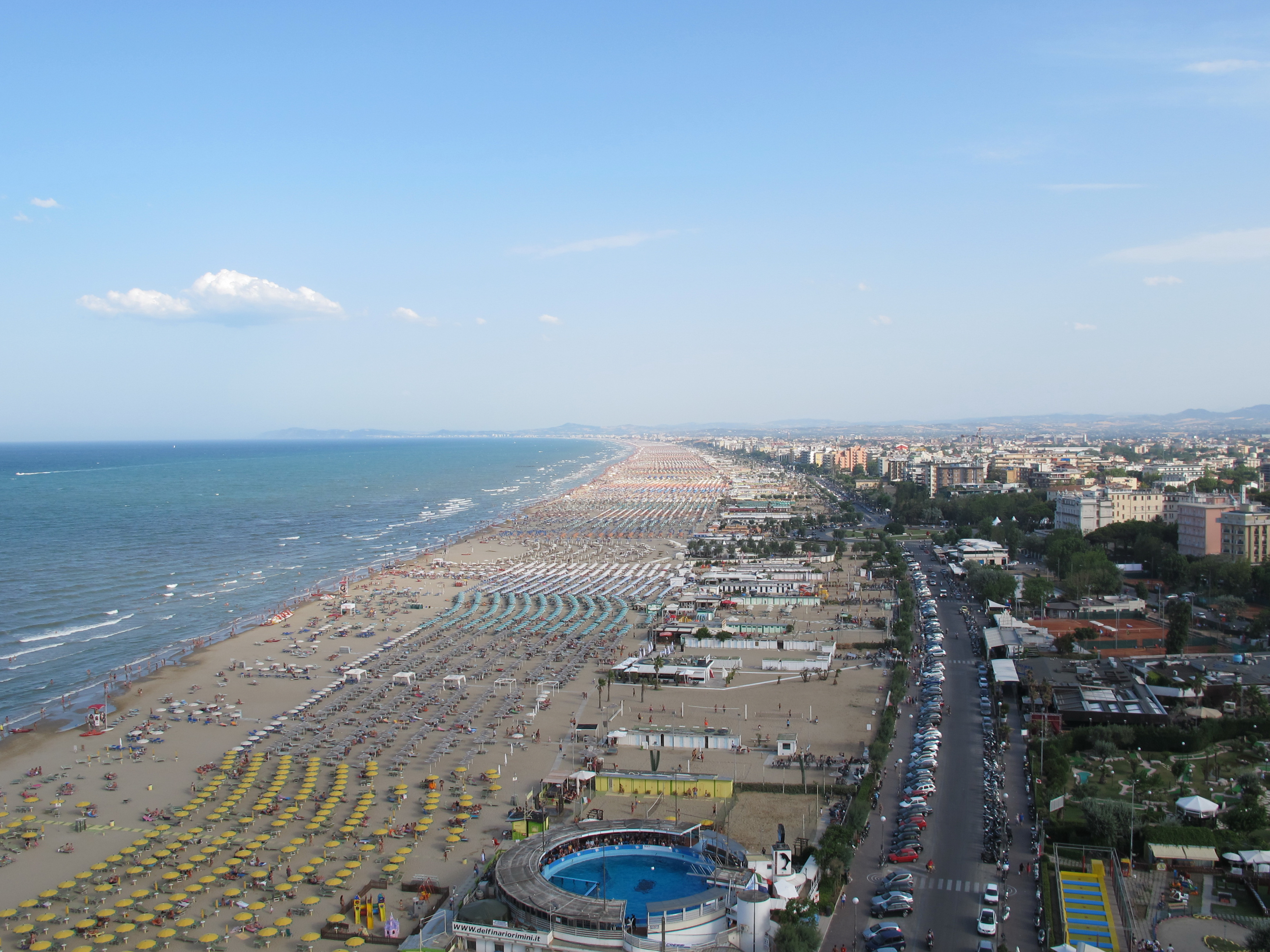 The beach of the city of Rimini, Italy. Photo taken from the ferris wheel on July 14, 2012.